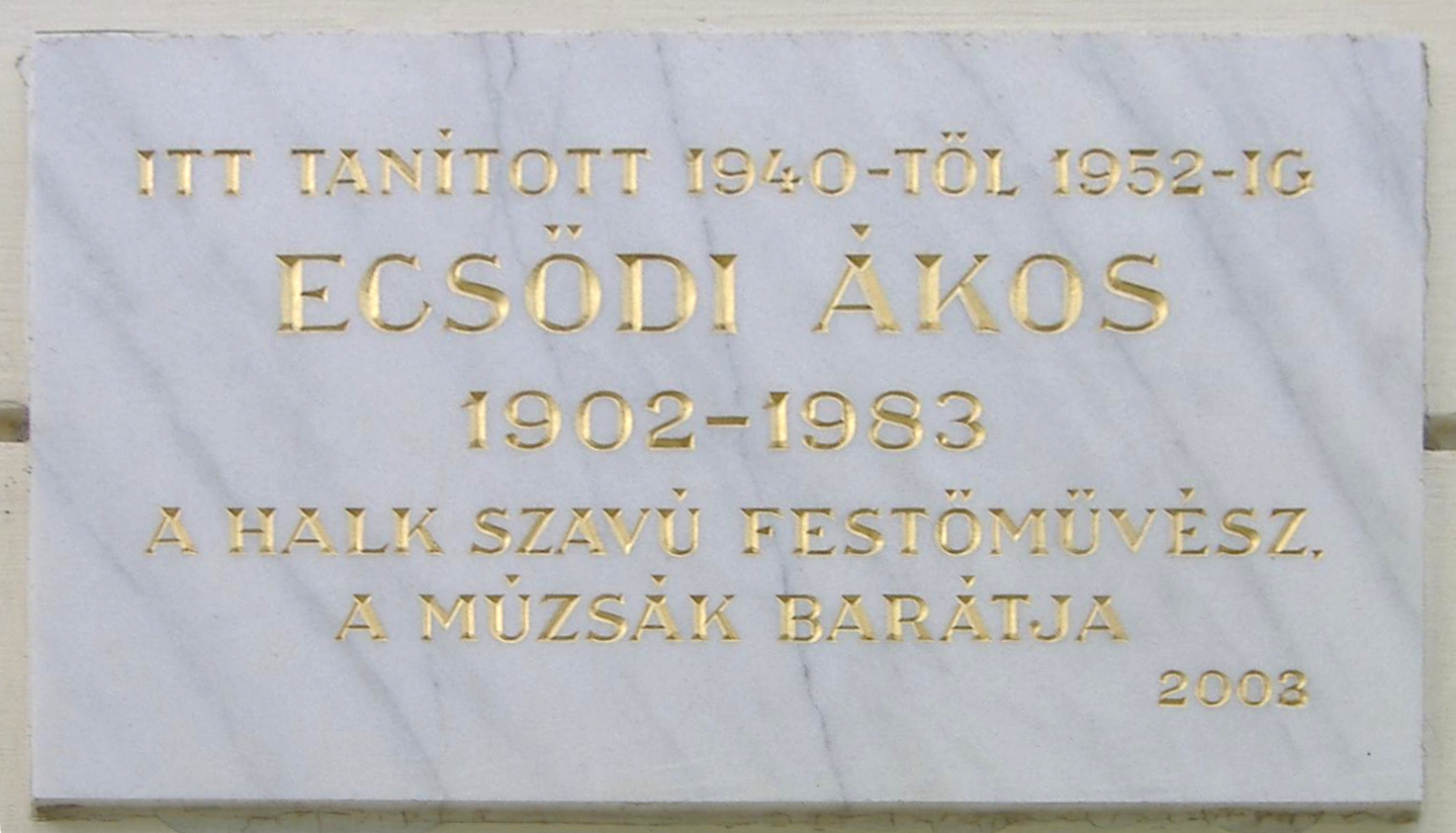 Memorial tablet of Ákos Ecsődi, painter in Makó, Hungary.